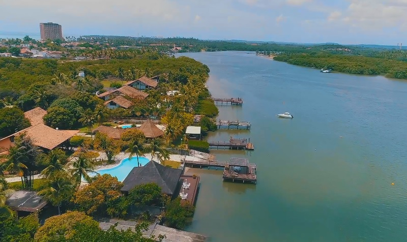 Maria Farinha Paulista (Pernambuco)